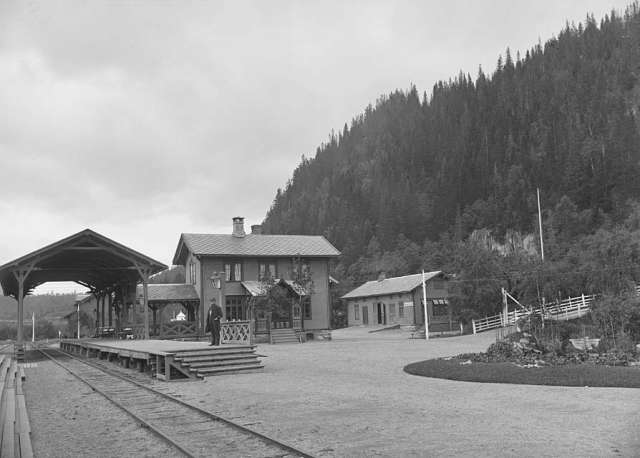 Dovrebanen, Støren railway station 1880-1890 Photo: Axel Lindahl (1814-1906)